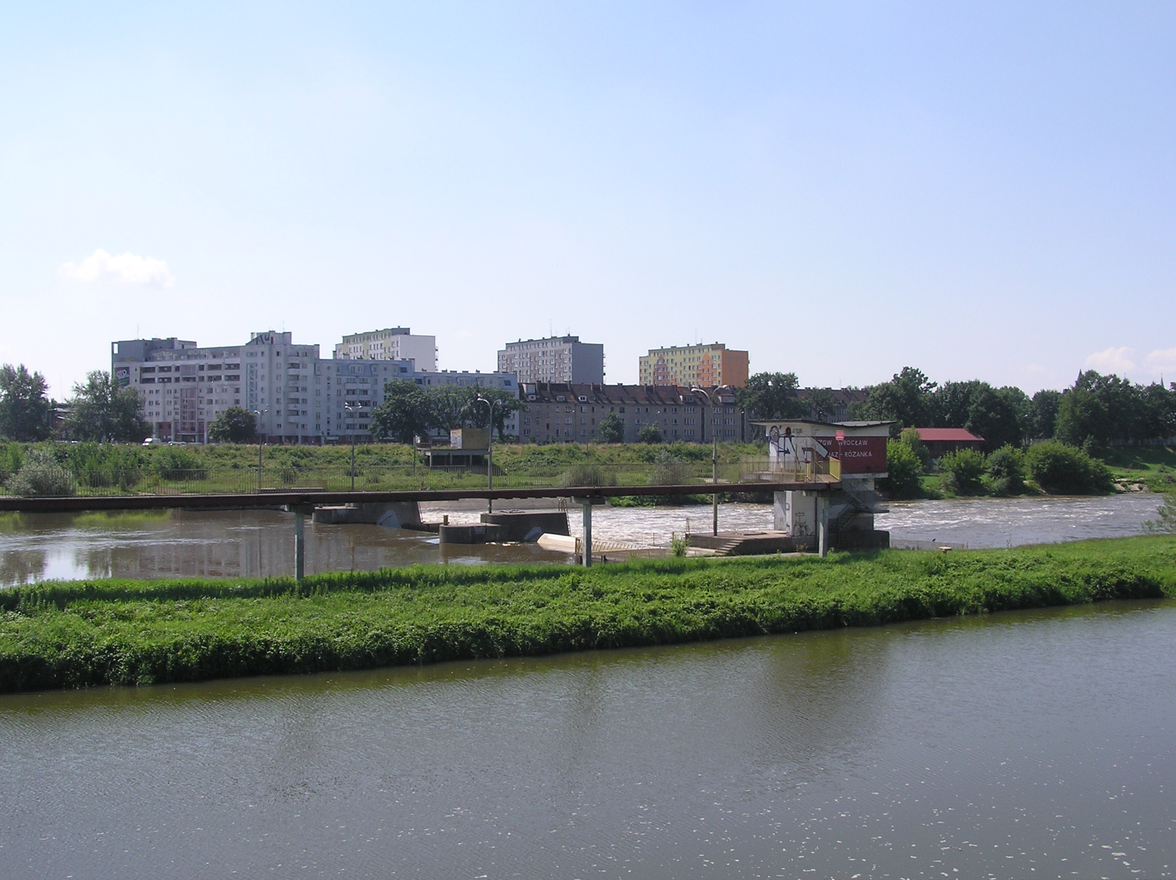 Wrocław, Oder River, Stara Odra, Różanka weir